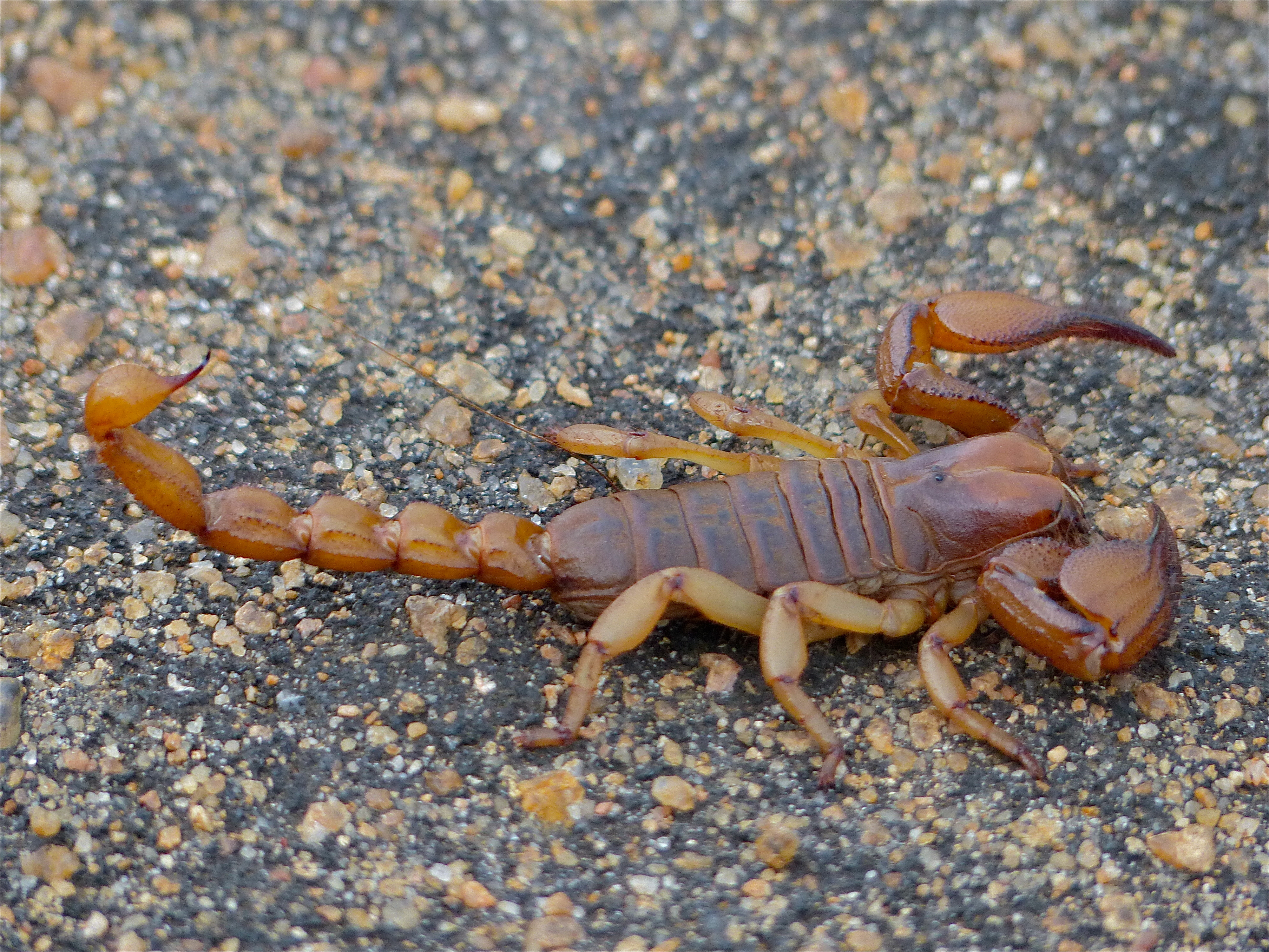 H10 Road North of Lower Sabie, Kruger NP, SOUTH AFRICA